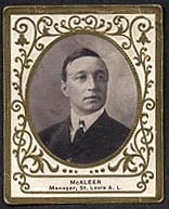 Jimmy McAleer - 1909 T204 Ramly Baseball Tobacco Cards